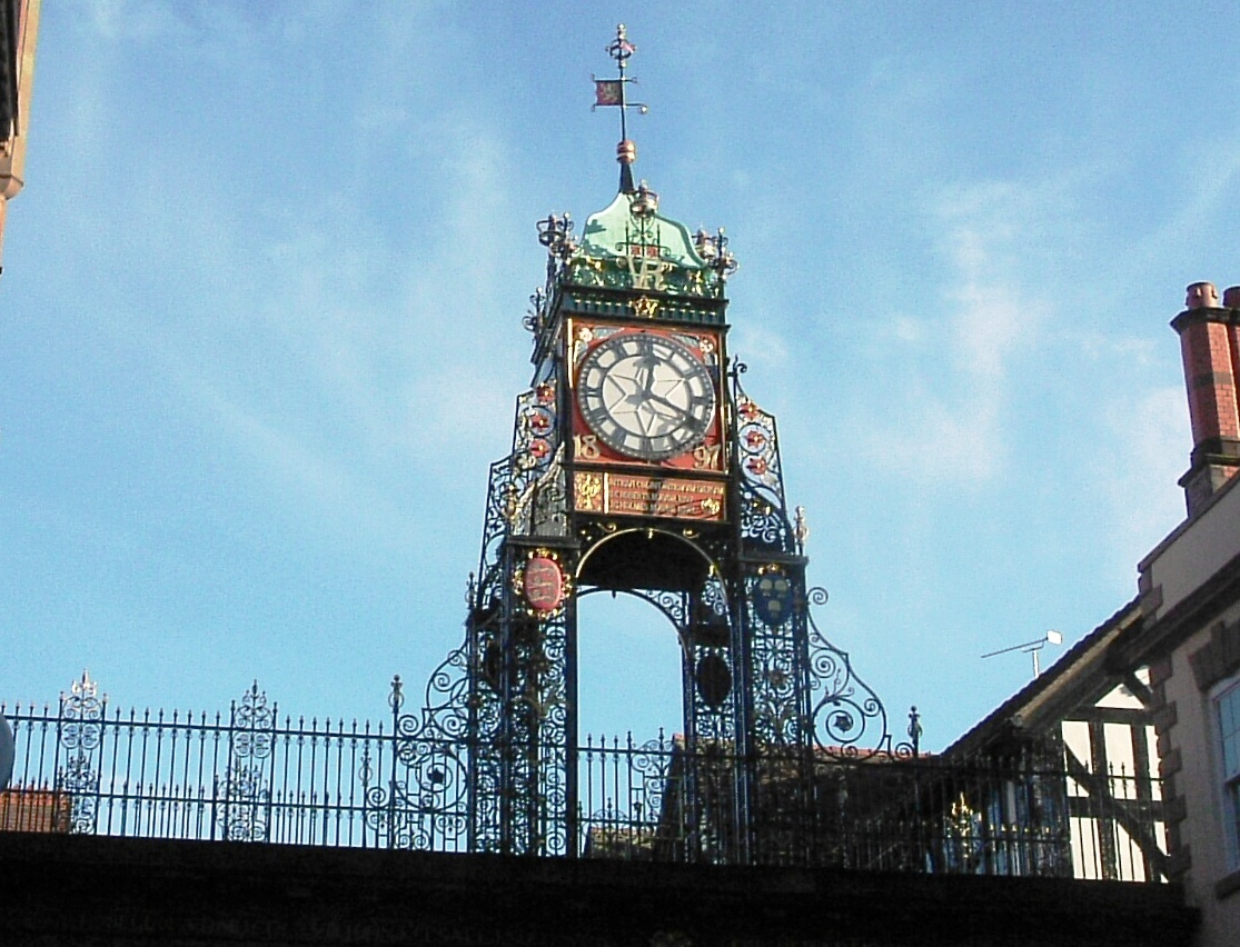 The Eastgate Clock in Chester. Taken by me.